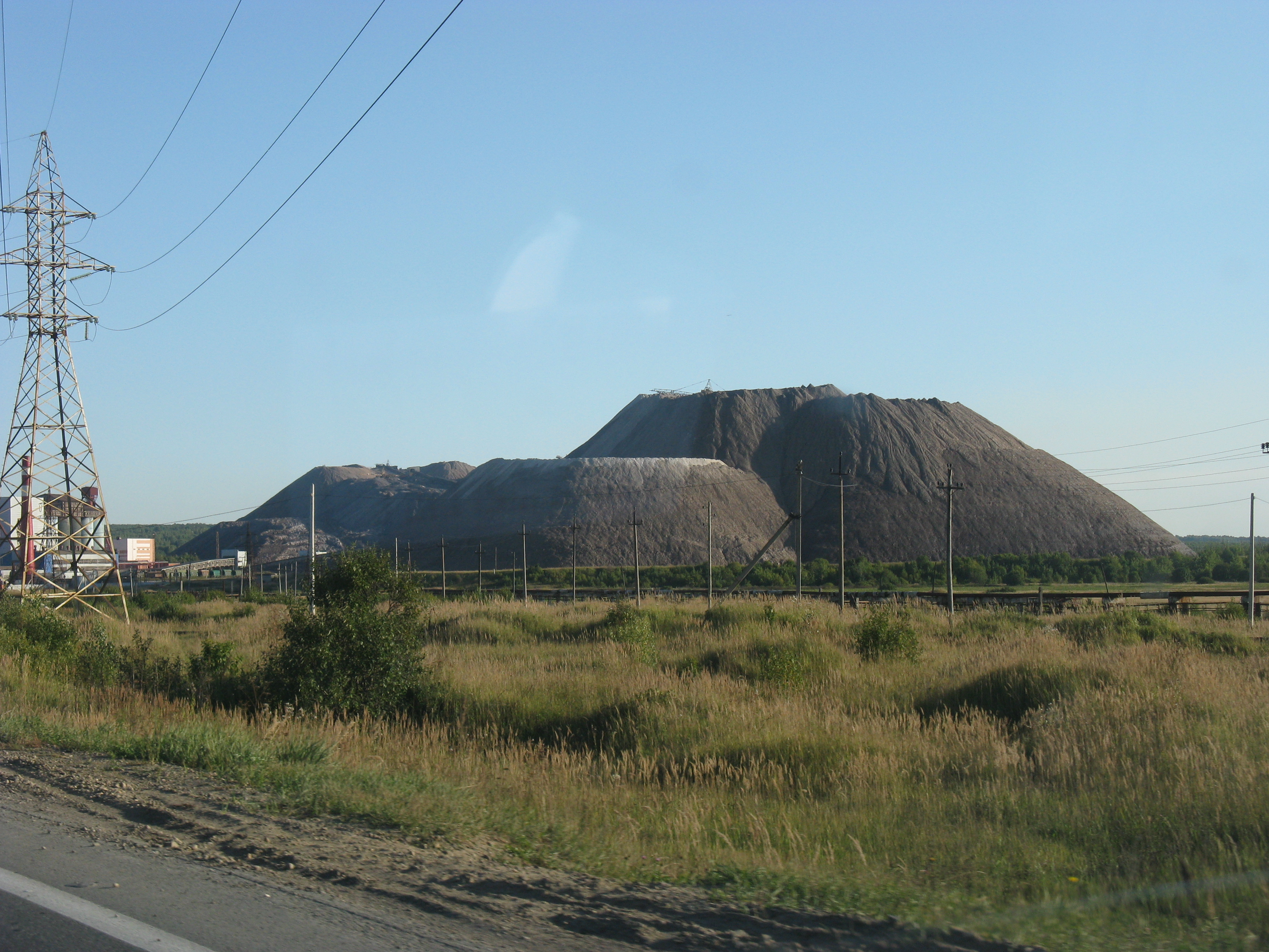 Salt dump on entrance to Solikamsk in Perm Krai